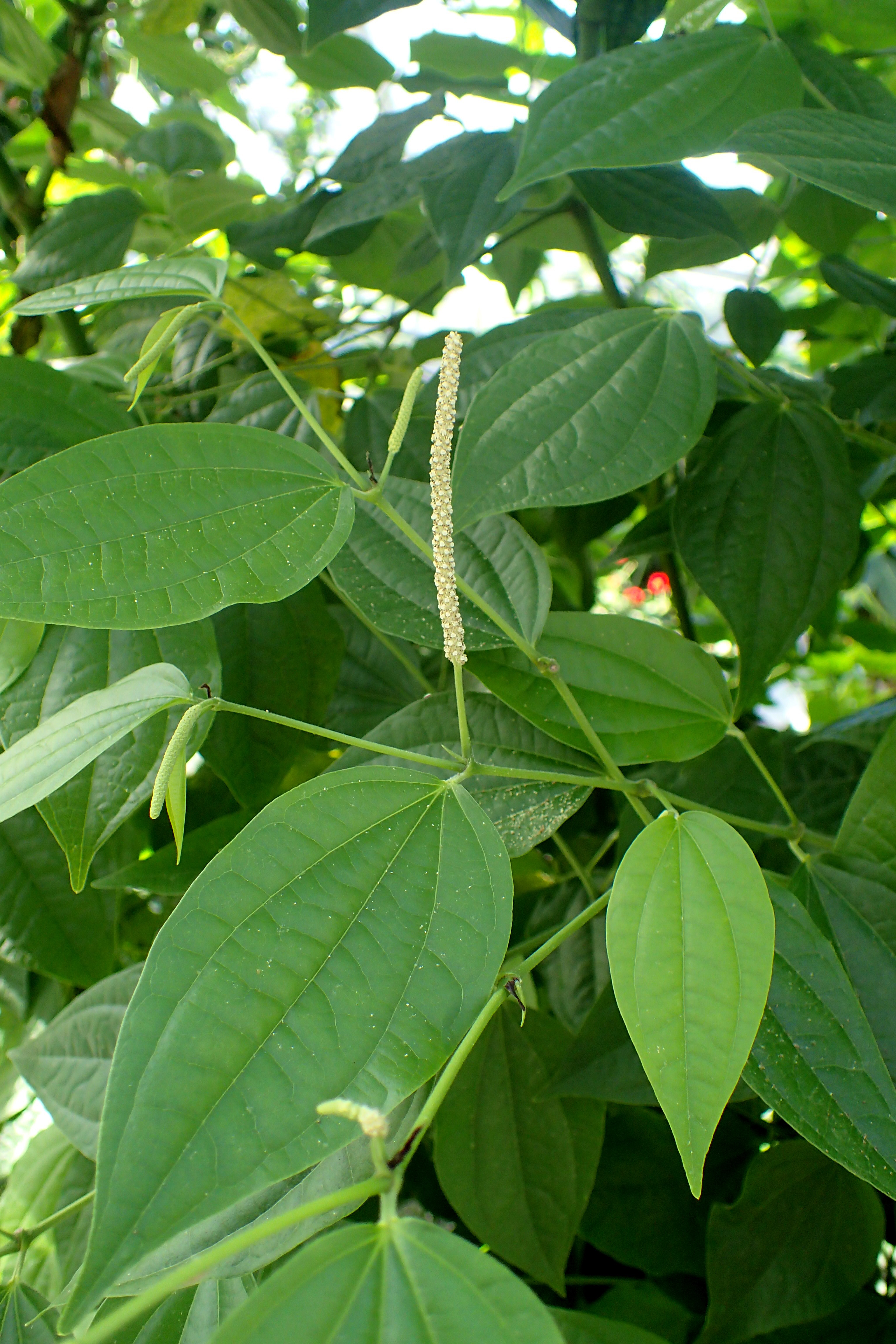 Piper amalago (labelled as Piper plantagineum) in PAN Botanical Garden in Warsaw